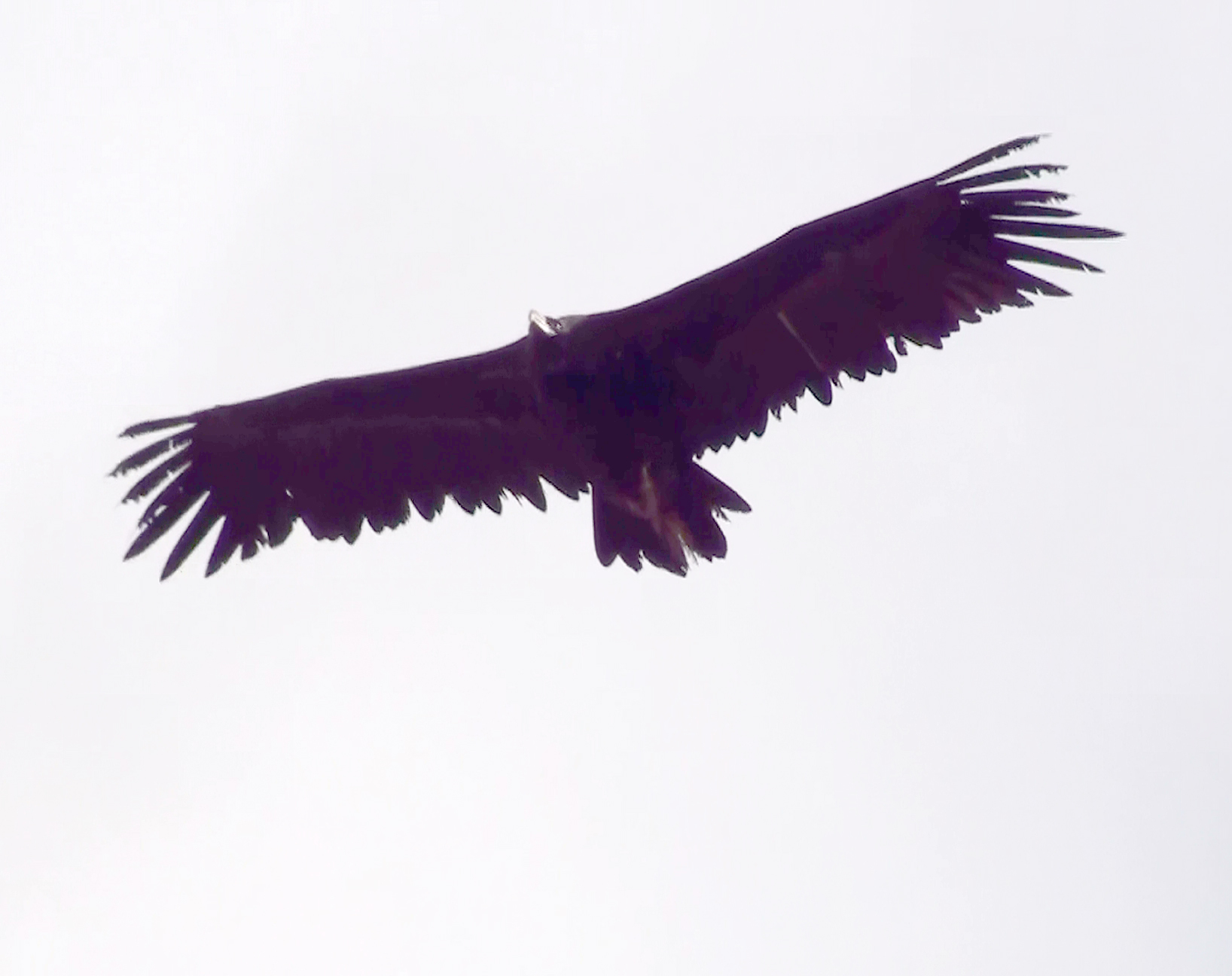 Black Vulture Aegypius monachus, in flight over the Pyrenees of Lleida, Catalonia, northeast Spain.